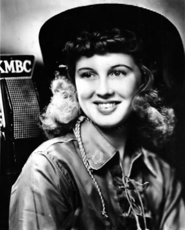 This is a publicity photo for singer-musician Bonnie Lou when she was a featured performer for radio station KMBC beginning in 1942. She then performed as "Sally Carson."